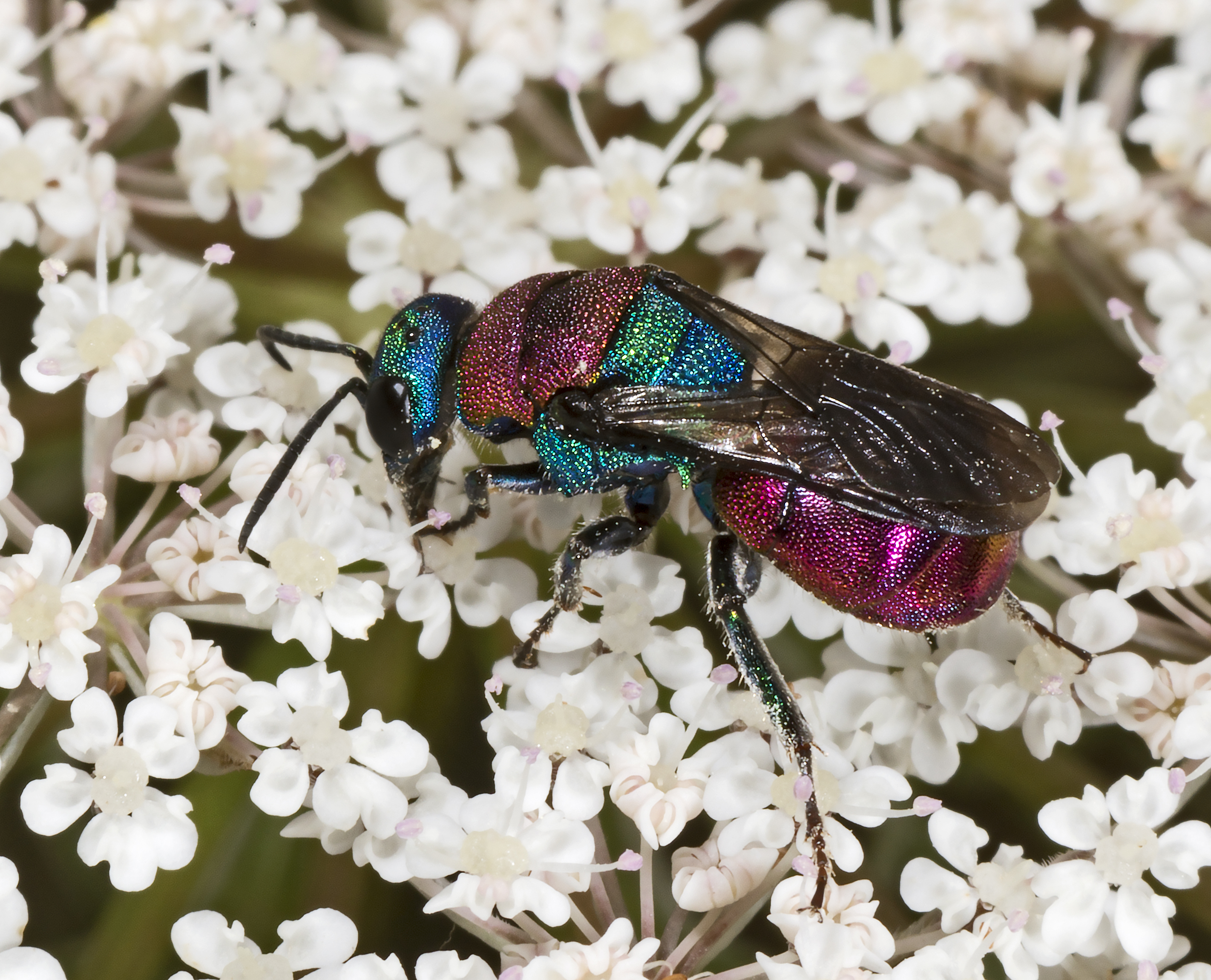 Hedychrum nobile. Side view